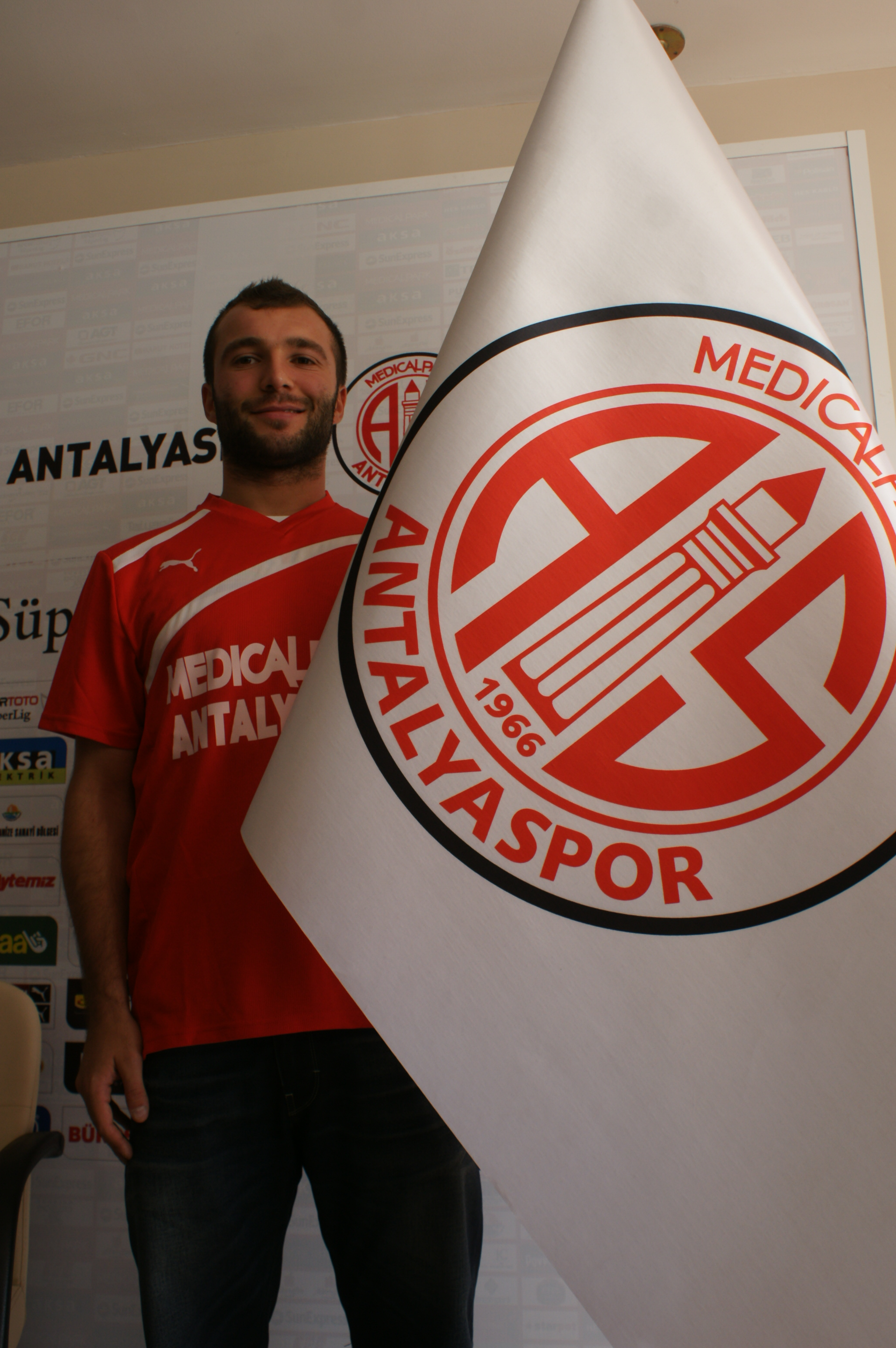 Photo: Murat Özgen